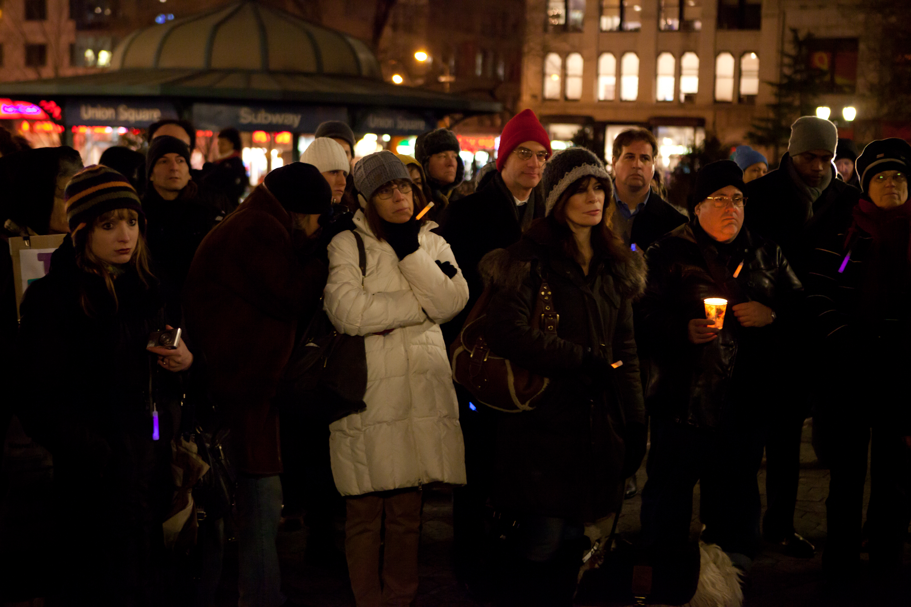 Scenes from a Vigil in Union Square on Tuesday, January 11, 2010 for the Victims of the Tucson shooting. © 2011 Jens Schott Knudsen | | Twitter: @jensschott